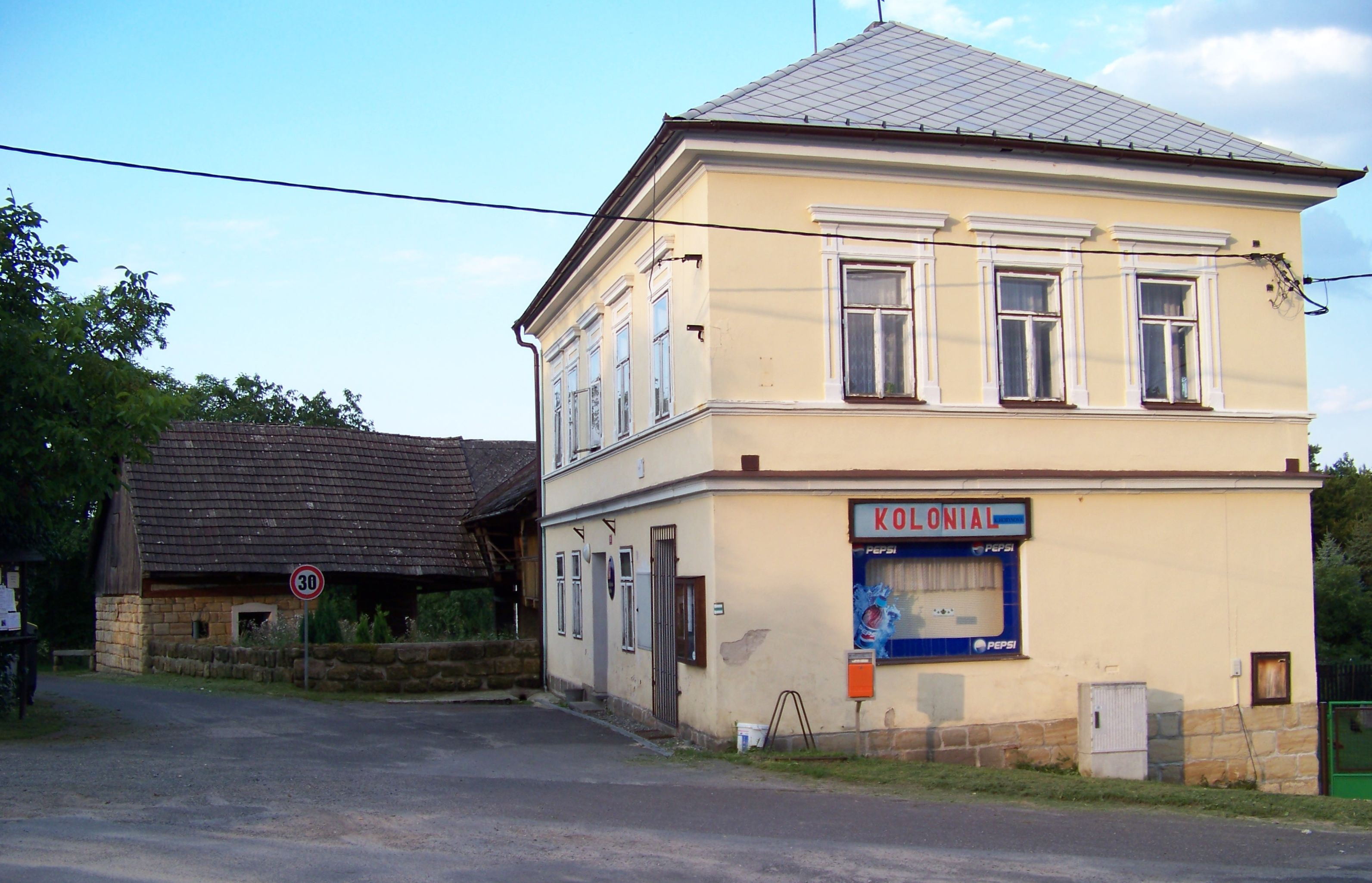 Dobřeň-Jestřebice, Mělník District, Central Bohemian Region, the Czech Republic. A municipal office and a shop. - Google Maps - Google Earth